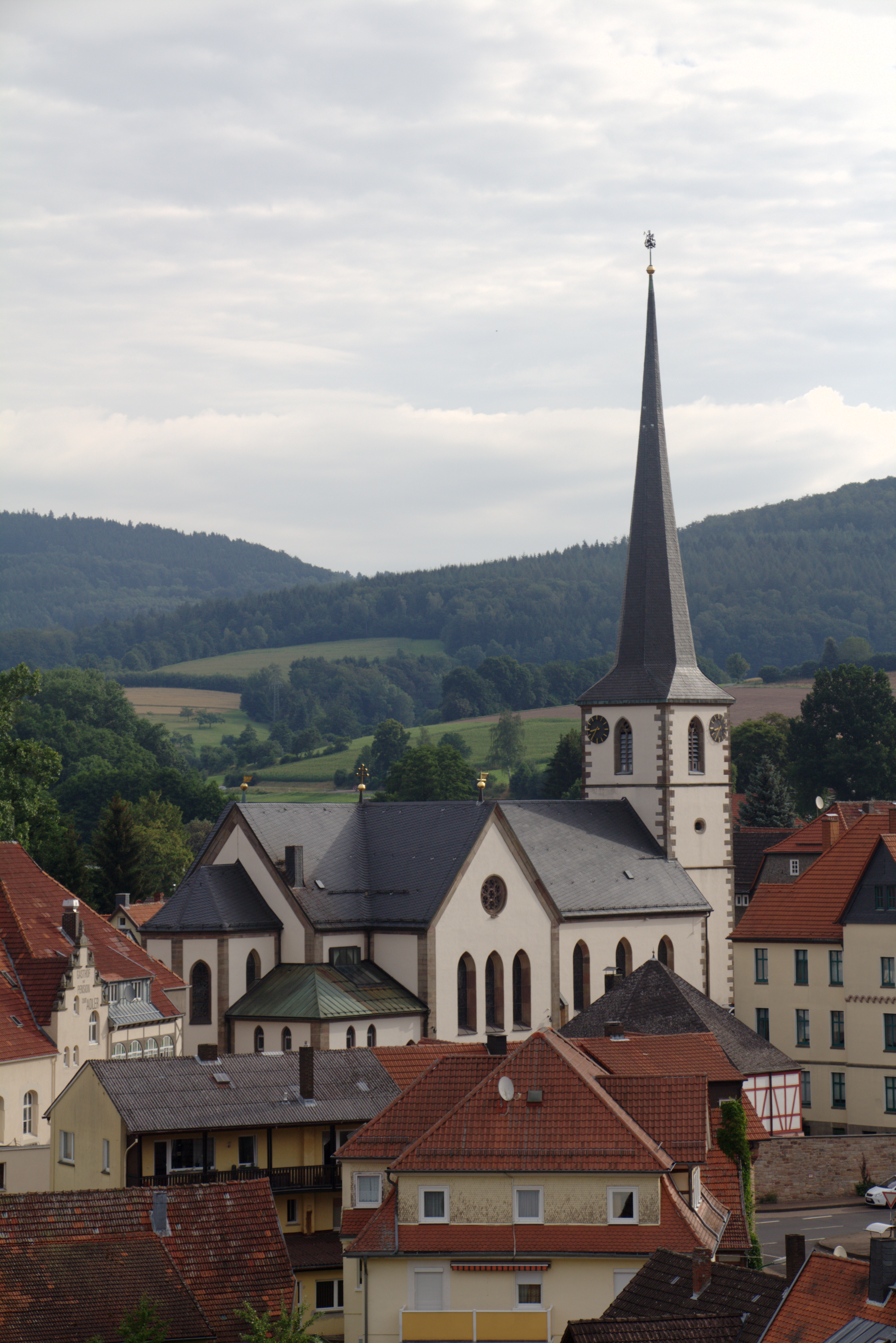 Catholic Church in, Poppenhausen Wasserkuppe, Hesse, Germany